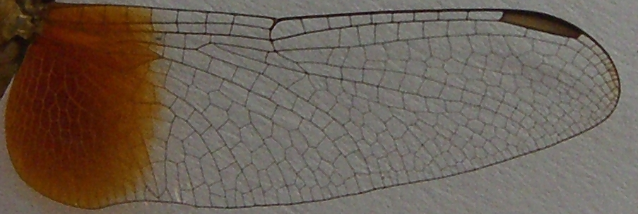 Description: Detail of the hindwing of Erythrodiplax fervida, (male)